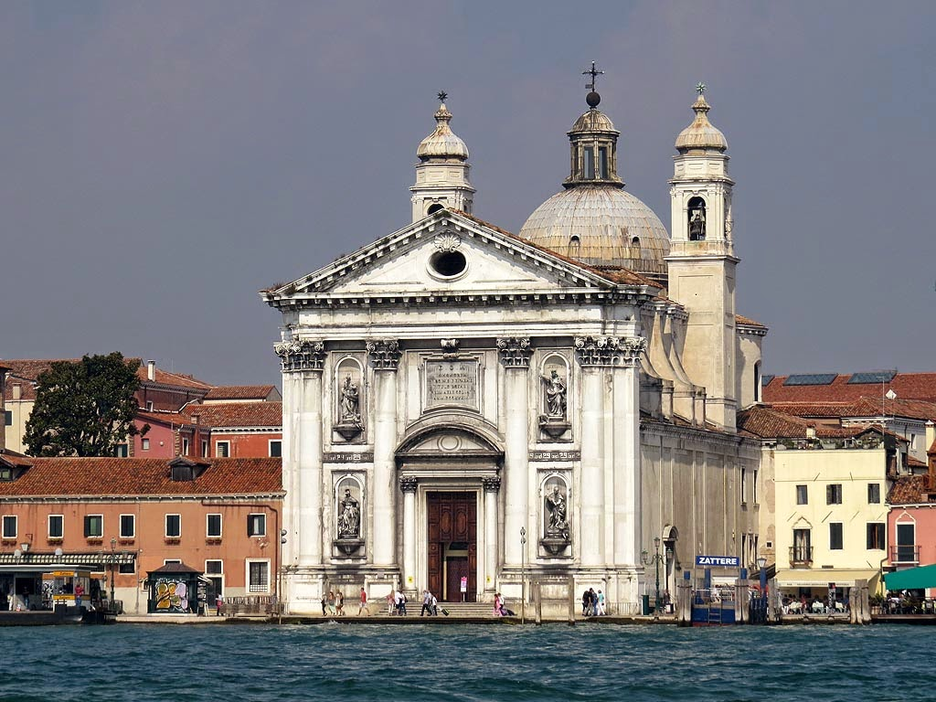 Santa Maria del Rosario (St. Mary of the Rosary) or I Gesuati, Dorsoduro, Venice